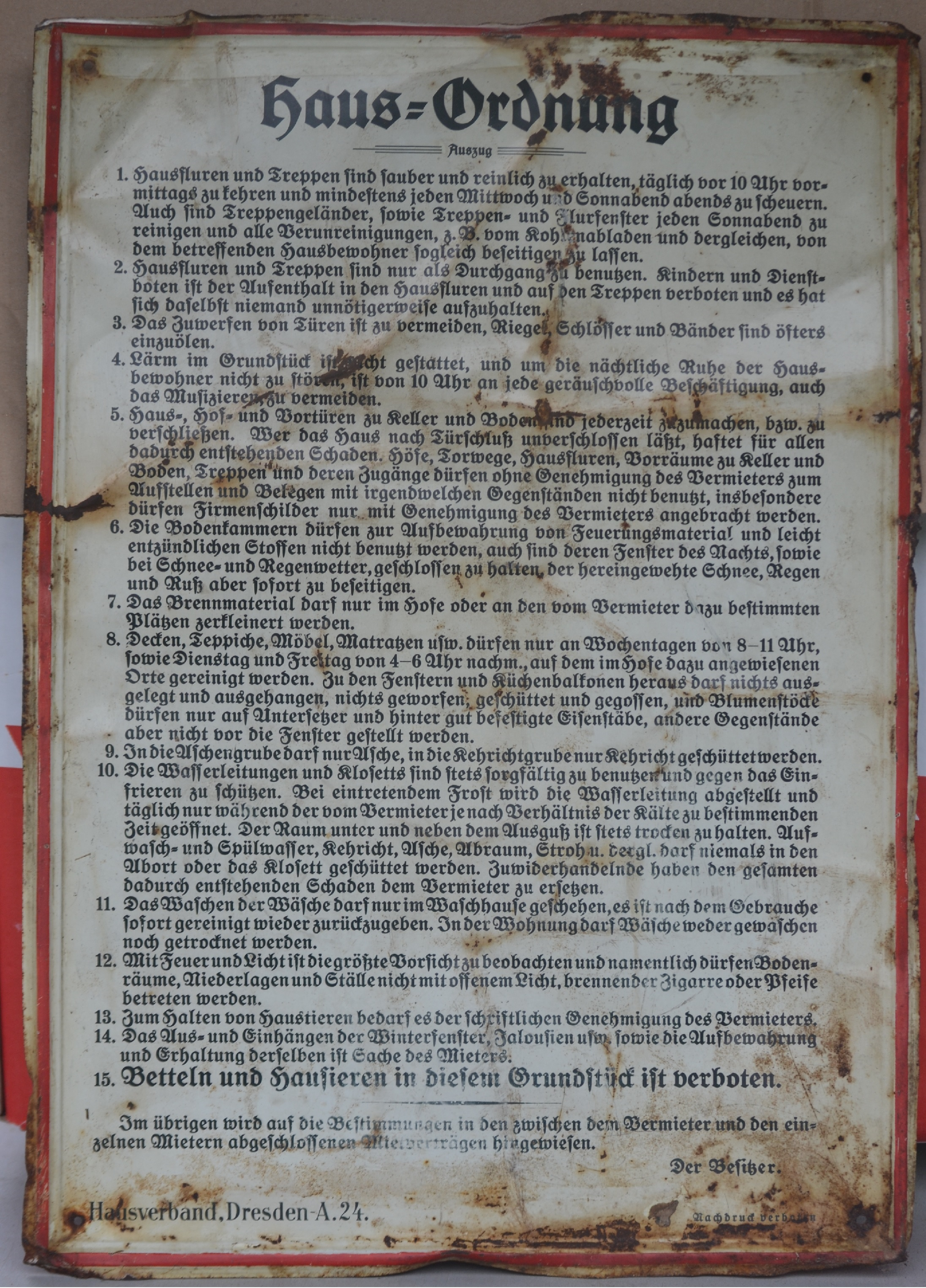 German House rules